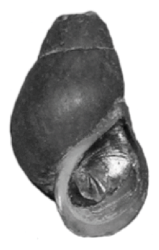 Black-and-white photo of an apertural view of a shell of Elimia potosiensis from Arkansas.